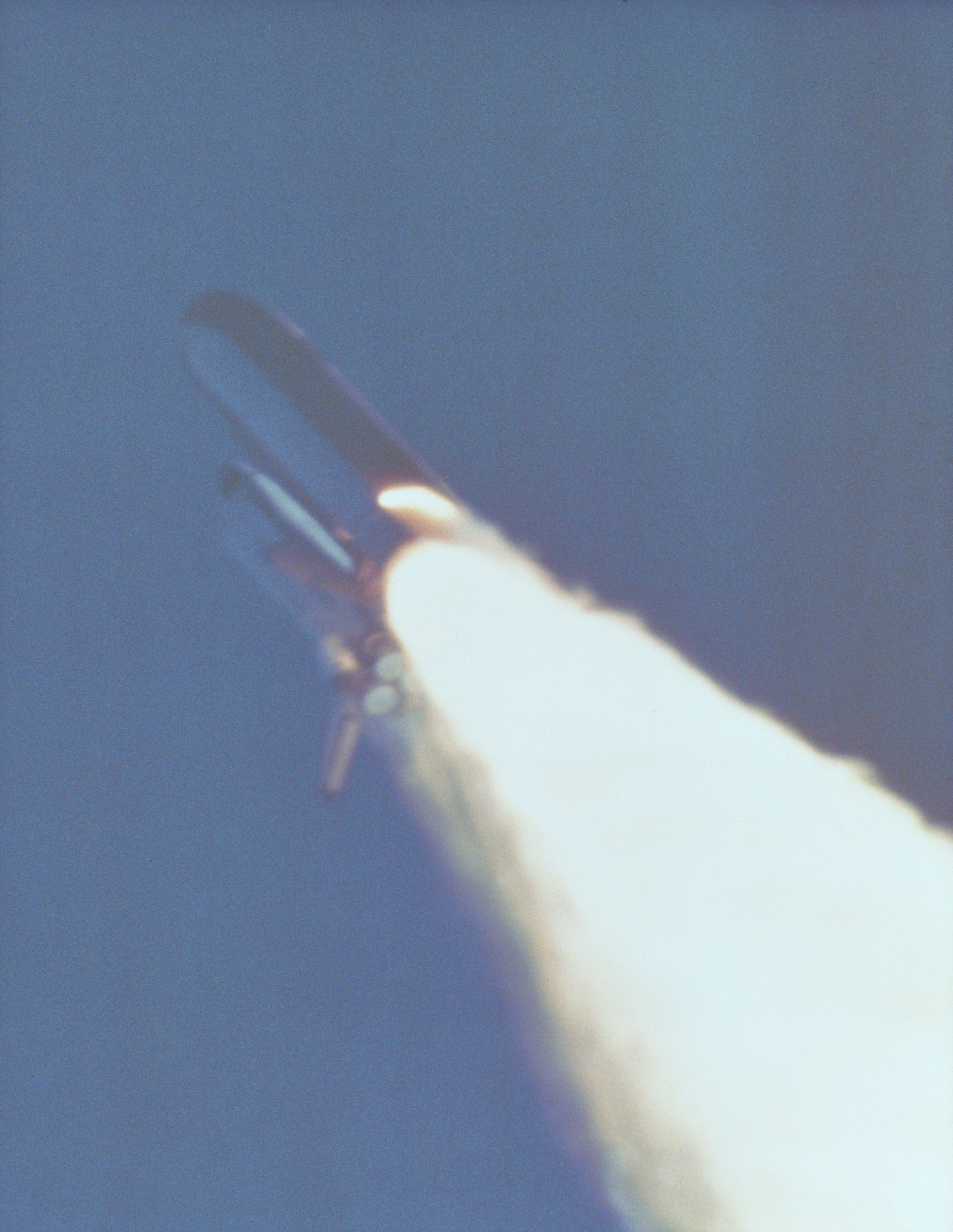 At 58.778 seconds into powered flight, a large flame plume is visible just above the SRB exhaust nozzle indicating a breach in the motor casing. This image was on page 26-27 of the report by the Rogers Commission regarding the Space Shuttle Challenger disaster. It was taken by camera E-207.